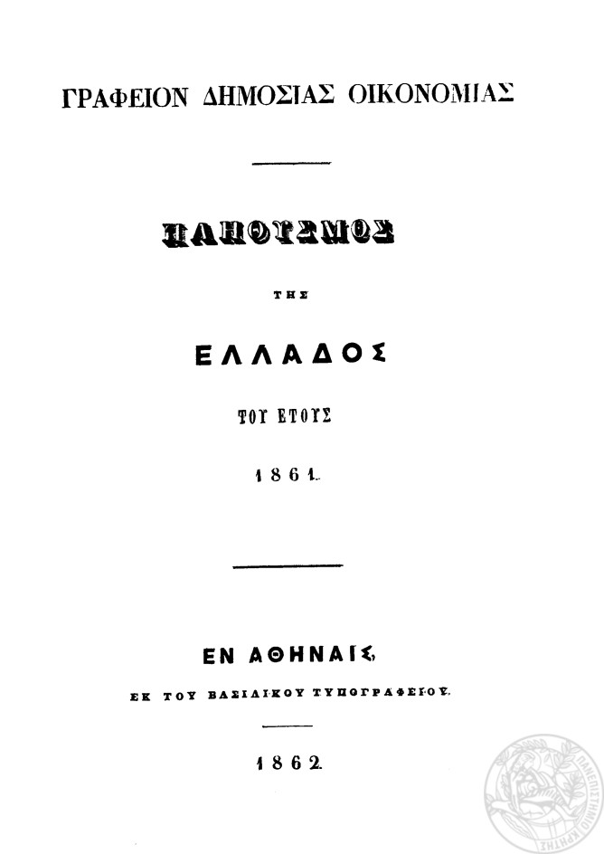 Title page of the 1861 Greece census by the Office of Public Finance / Ministry of Interior